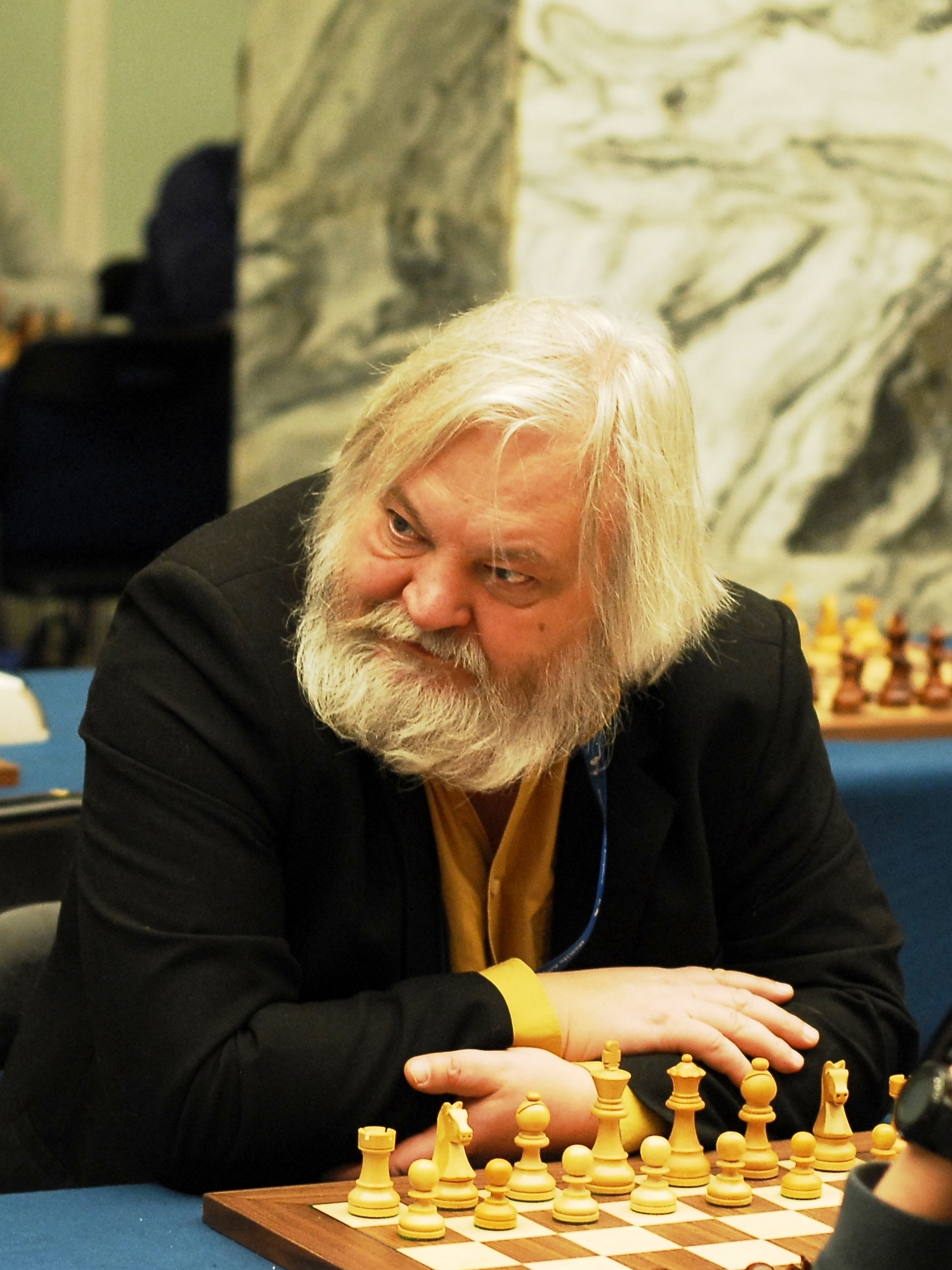 GM Artur Jussupow, European Rapid Chess Championship, Warsaw 2012.